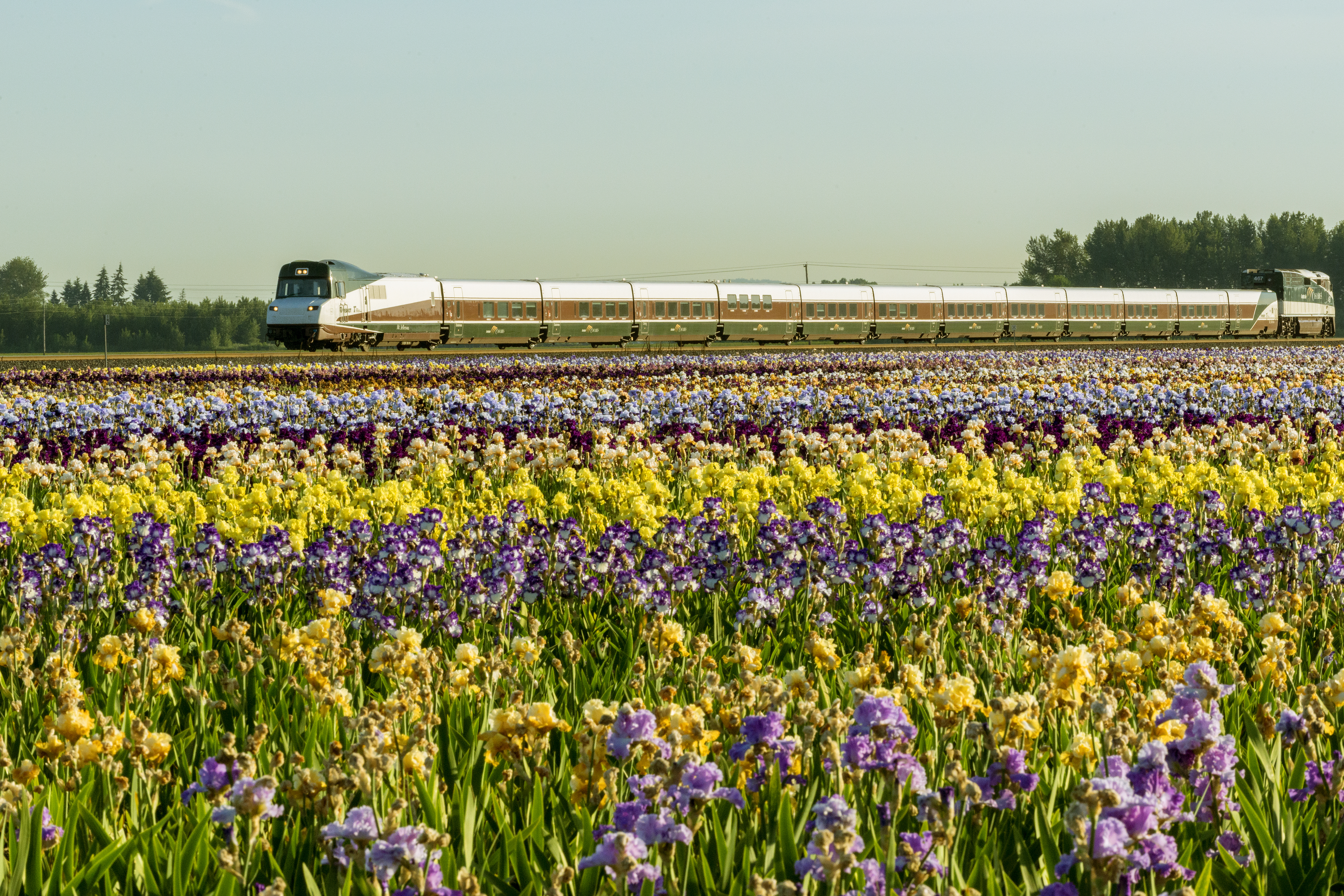 One of a series of Oregon Talgo (Amtrak Cascades) trainset photos.